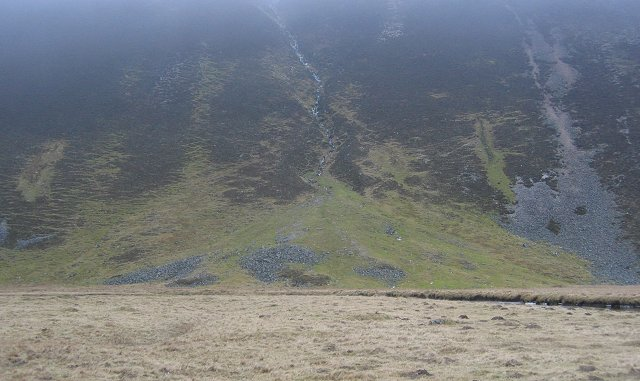 Debris cone. At the foot of a gully falling from Creag an Lochain, a cone of debris.